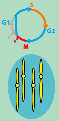 Just the endomitosis diagram from the Endocycling vs. endomitosis